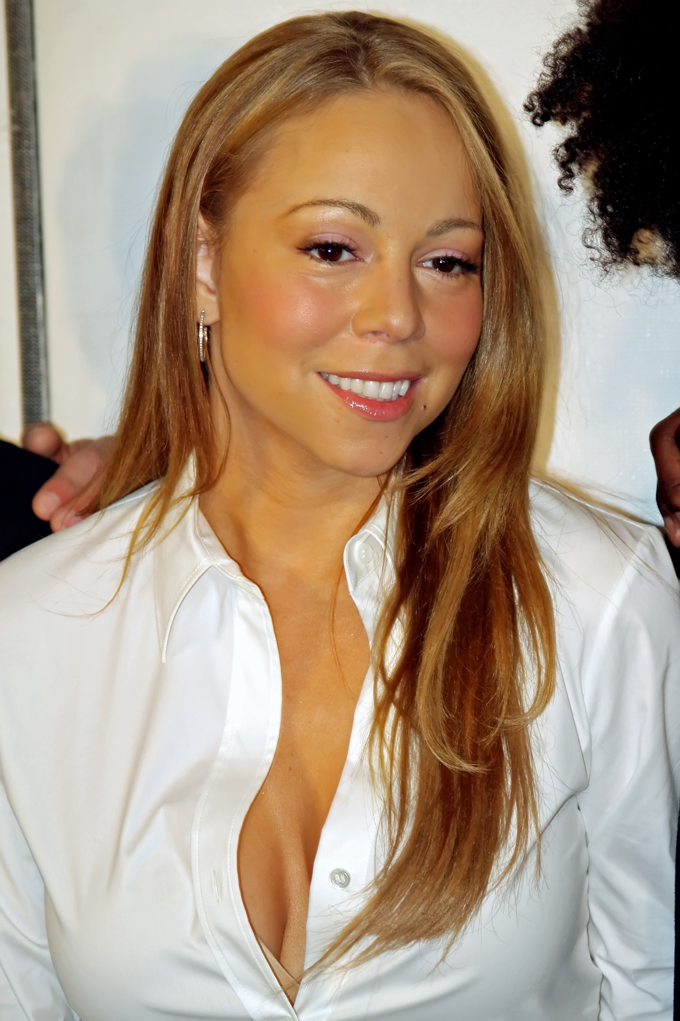 Mariah Carey at the premiere of Tennessee at the 2008 Tribeca Film Festival.